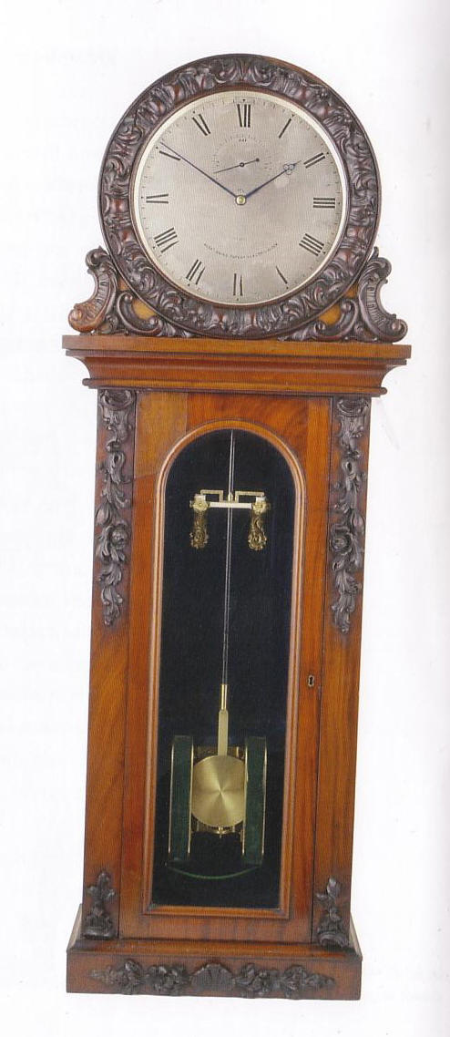 Precision regulator clock with electromagnetically-driven pendulum, by Alexander Bain, London, around 1845, on display in Deutsches Uhrenmuseum (German clock museum), Inventory No. 2004-162. One of the first electric clocks ever built. The pendulum was kept swinging by pulses of magnetic force from an electromagnet (solenoid) (visible, bottom) near the bob, powered by a battery, and controlled by switch contacts (visible, center) on the pendulum rod. Picture by Fortunat Mueller-Maerki taken 2006 at DUM